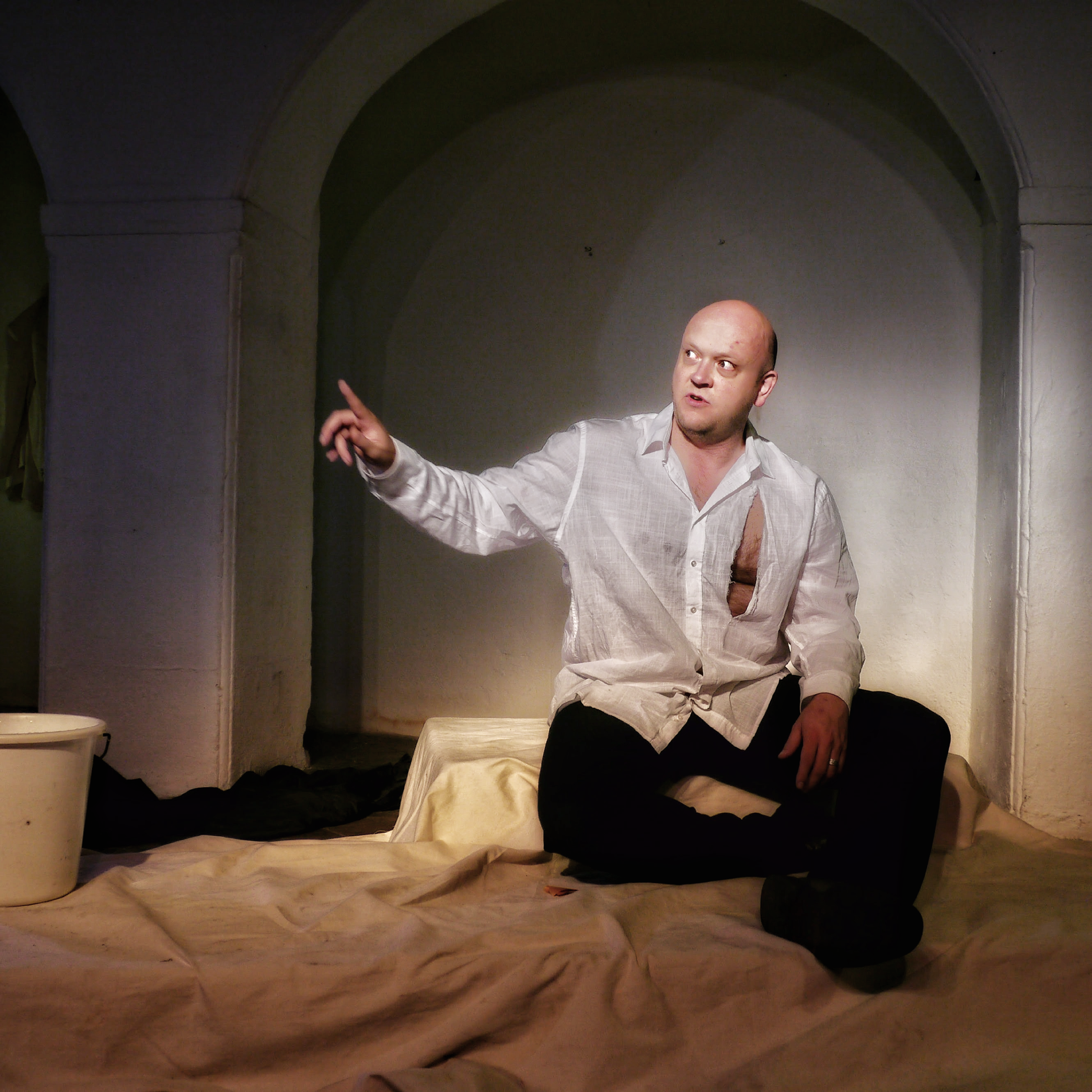 Gerd Buurmann